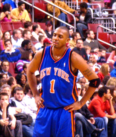 Anfernee "Penny" Hardaway of the Knicks. All images must be properly attributed to Matthew Johnson. Higher resolutions are available. For more information